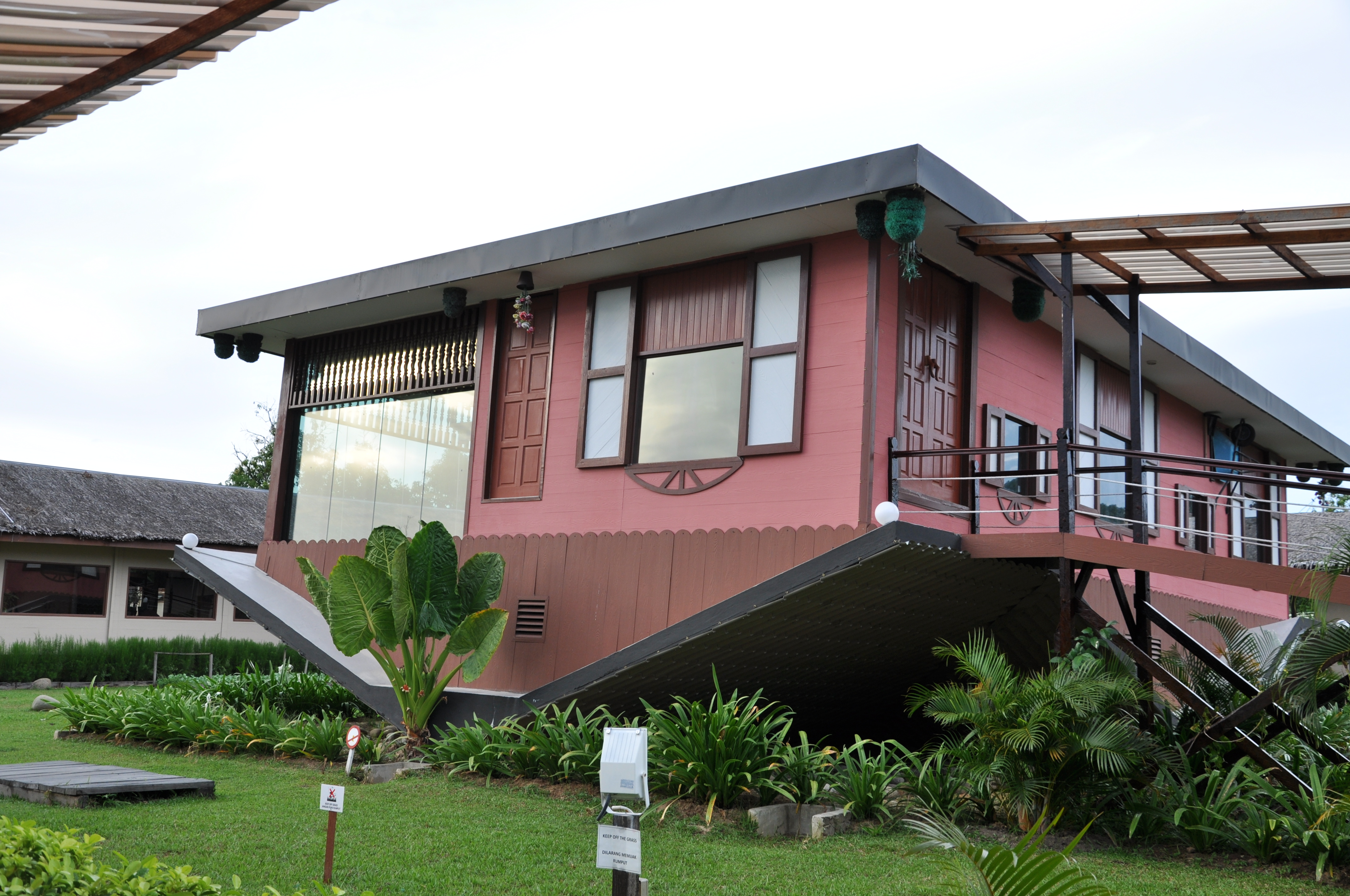 A long shot of the Rumah Terbalik upside down house. Opened in 2012, it is considered only one of five in the world, the other four being in Europe and in Japan. Interesting though it seemed, my first reaction on seeing it was, oh, and the purpose of all this is---? The unusual tourist attraction recently entered the Malaysian book of records as the only structure of its kind in Malaysia. (Kota Kinabalu, East Malaysia, Nov. 2013)